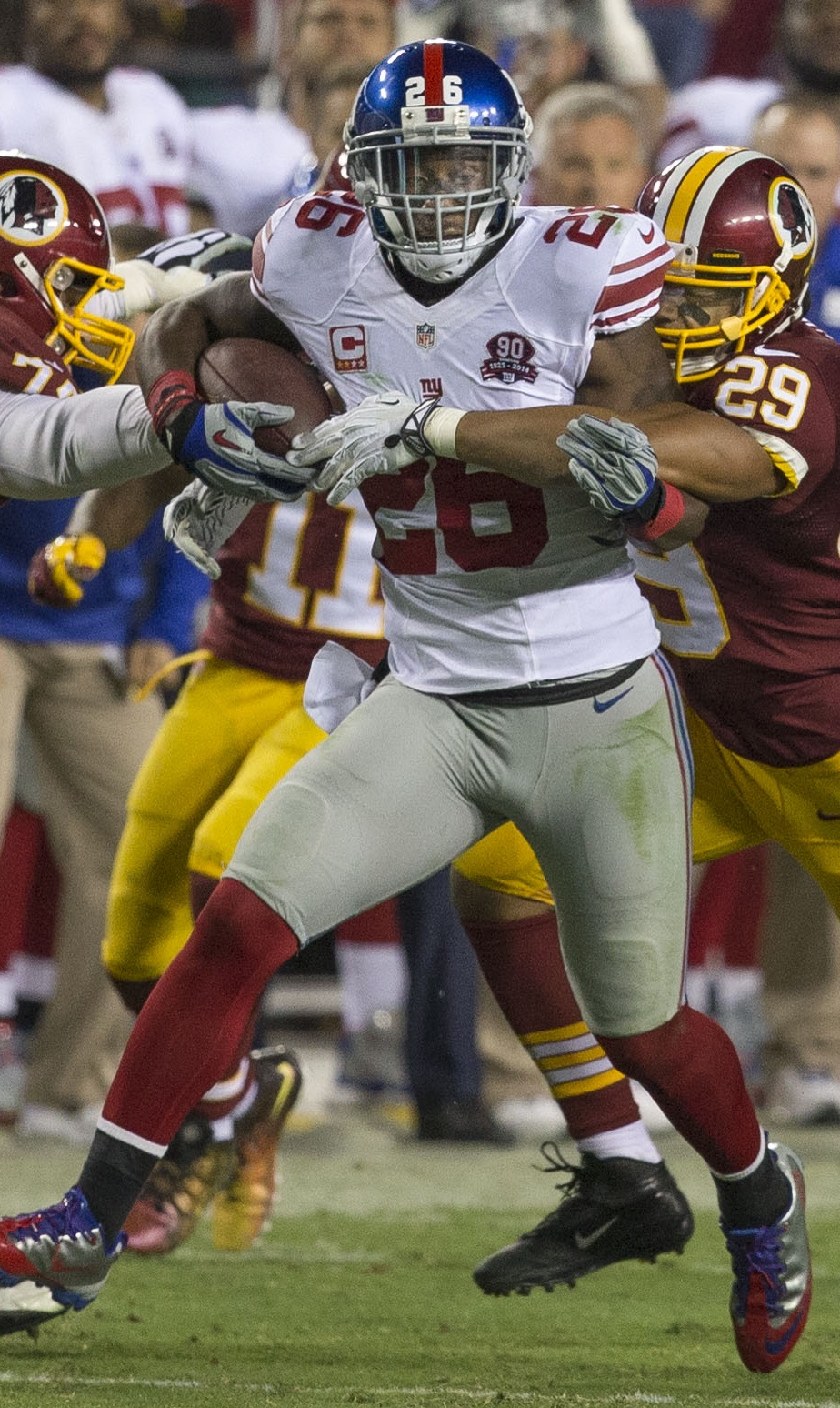 Giants at Redskins 9/25/14